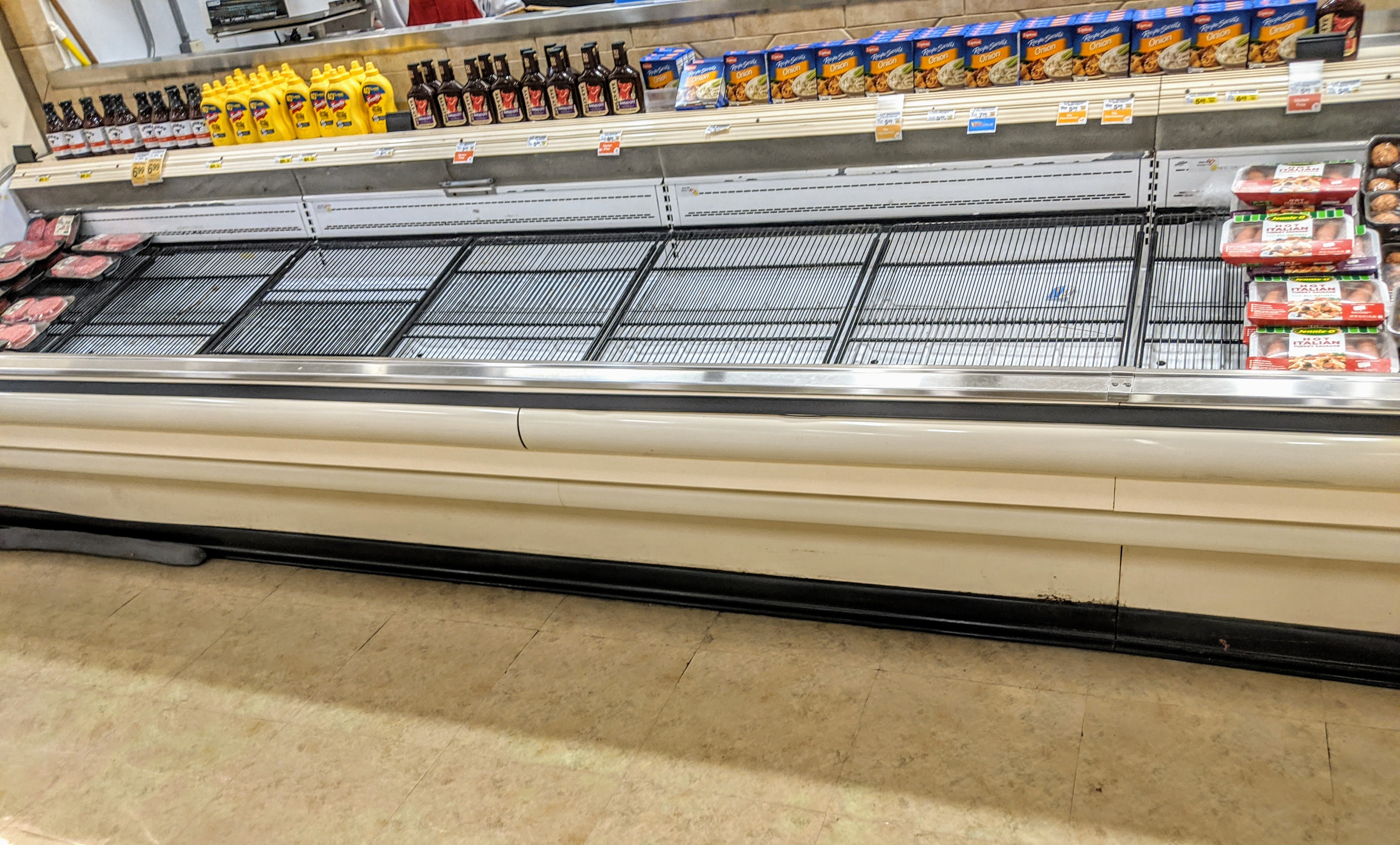 A supermarket meat counter in American Canyon, California during the coronavirus pandemic. Photo by Jim Heaphy.